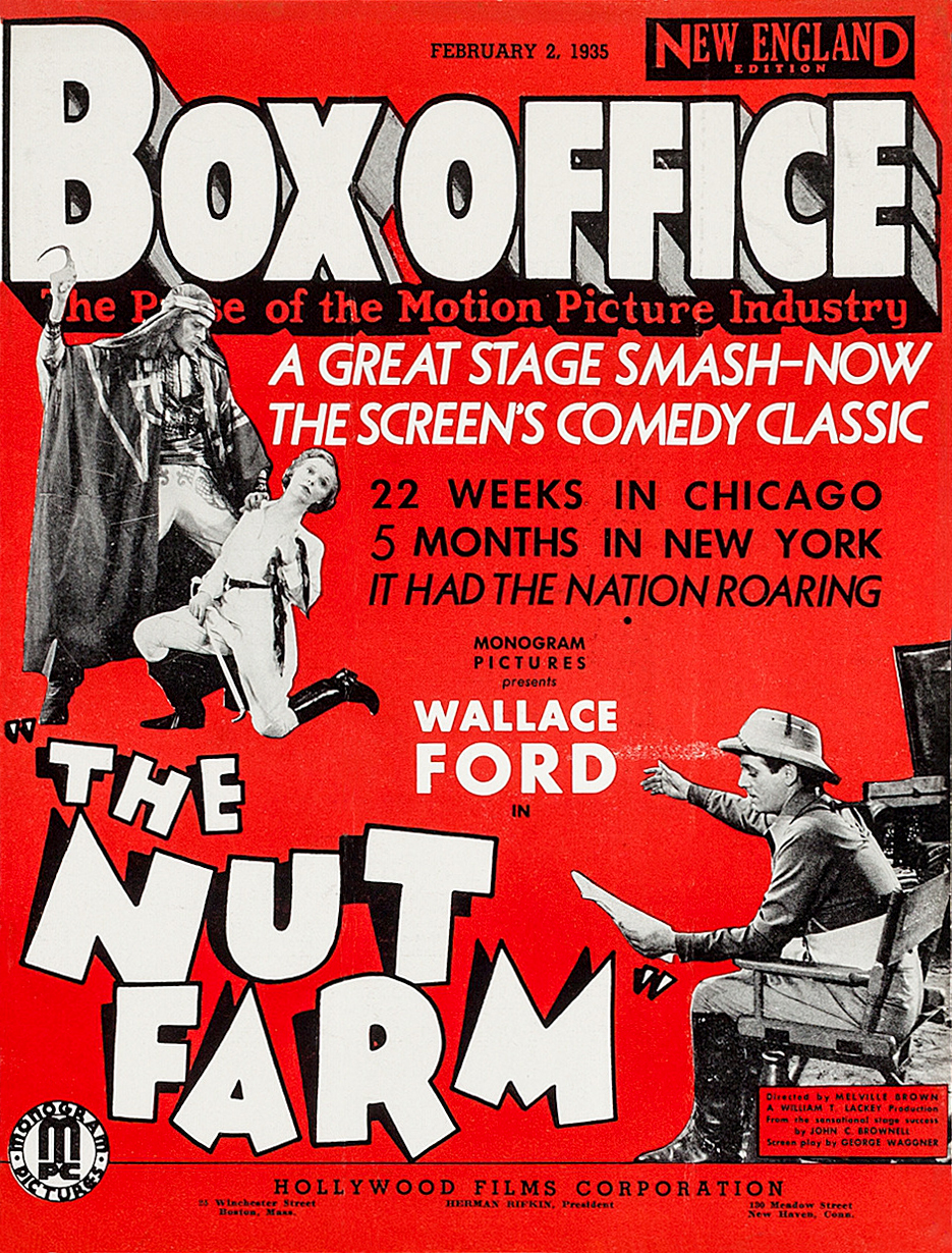 Front cover of Boxoffice magazine for February 2, 1935, featuring the Monogram Pictures film The Nut Farm